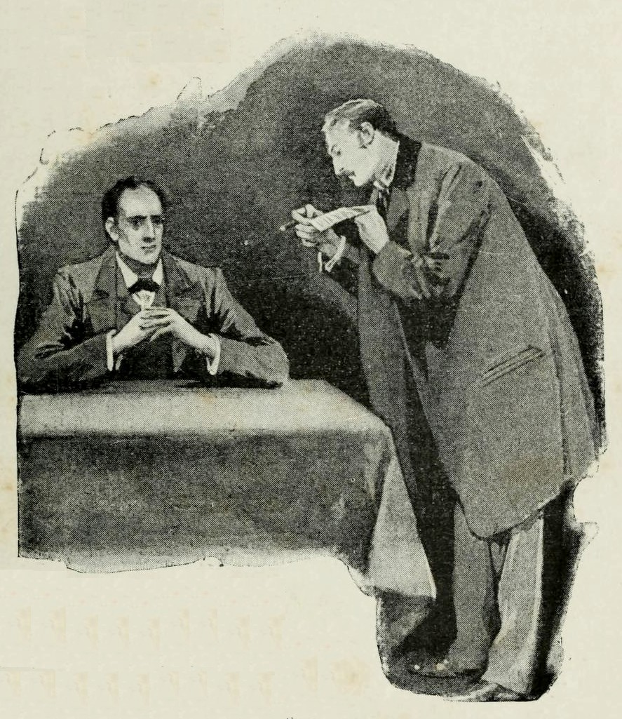 Illustration of the short story A Scandal in Bohemia, which appeared in The Strand Magazine in July, 1891. This illustration appeared on page 63, and is captioned "I CAREFULLY EXAMINED THE WRITING."